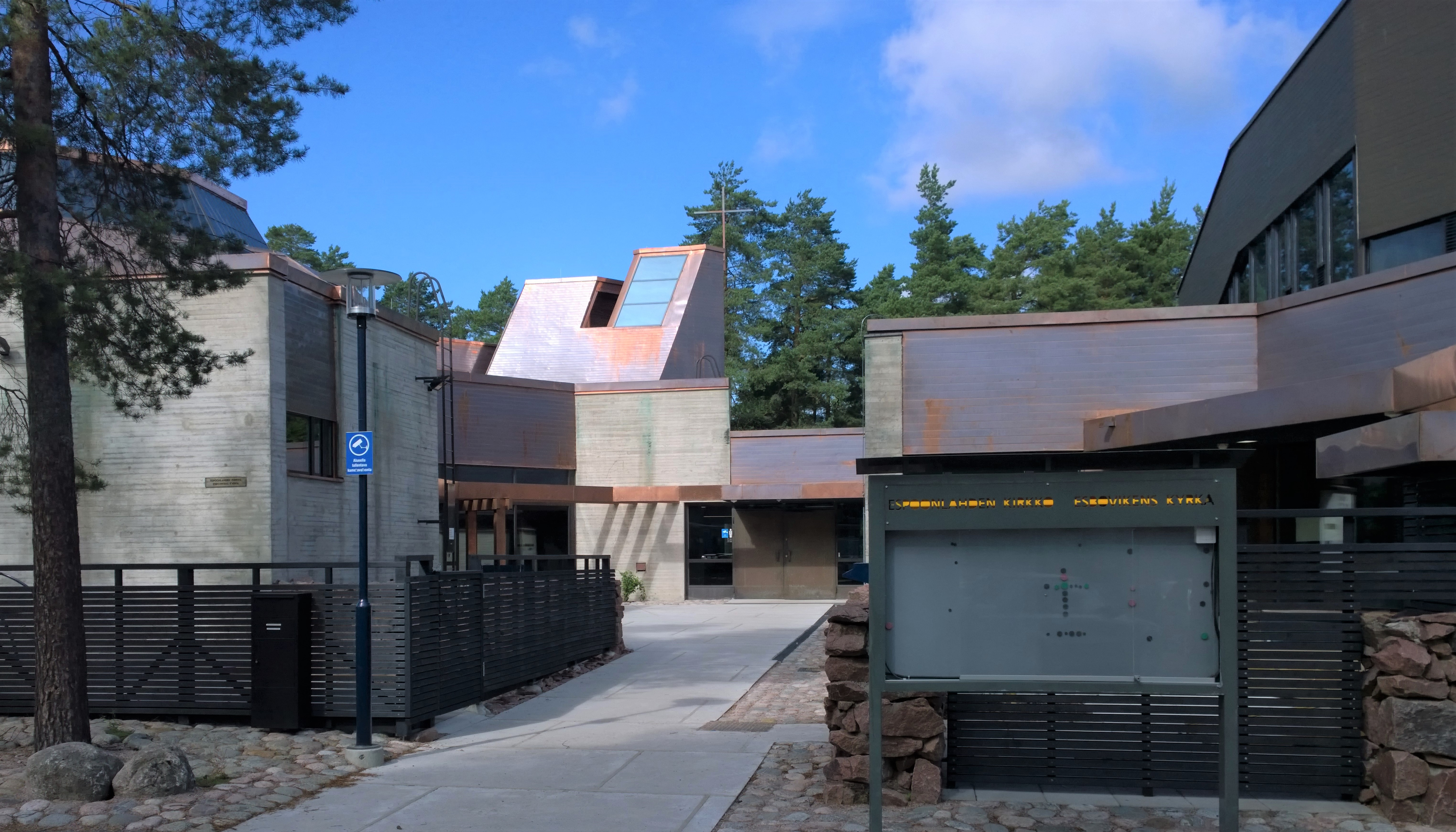 Espoonlahti Church, the South Entrance